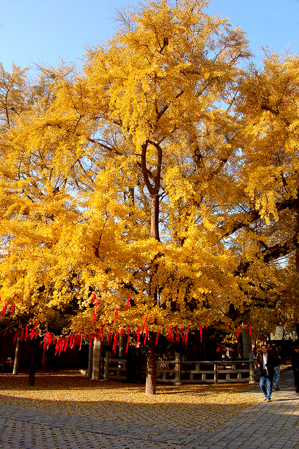 "Fulai mountain" means bless-coming — Fulai Mountain is a famous scenic spot in Rizhao. It is one of four Geological historical relics parks in Shandong Province; and is 6 km west of Ju County. Maidenhair tree (Ginkgo biloba) in autumn color.